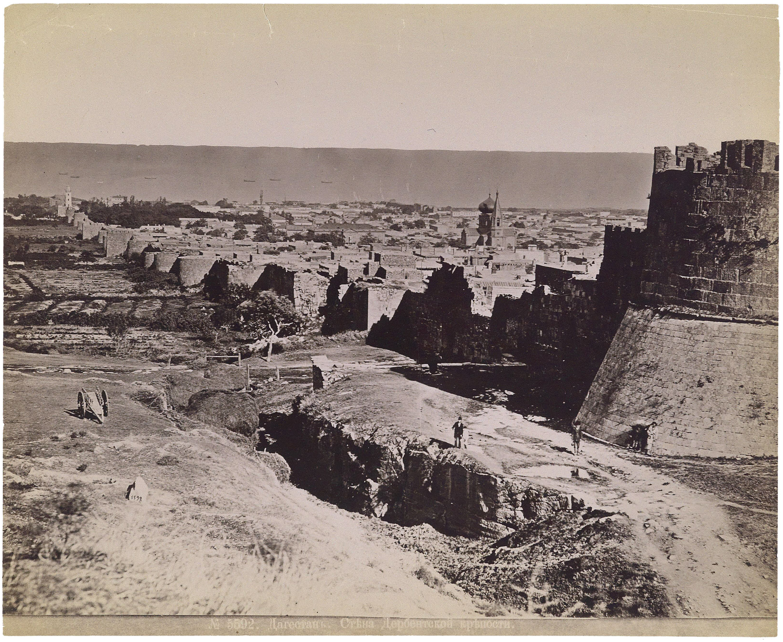 Citadel wall and old quarter of the city of Derbent — in the Republic of Dagestan. 6th century CE fortress — Sassanid Dynasty architecture.